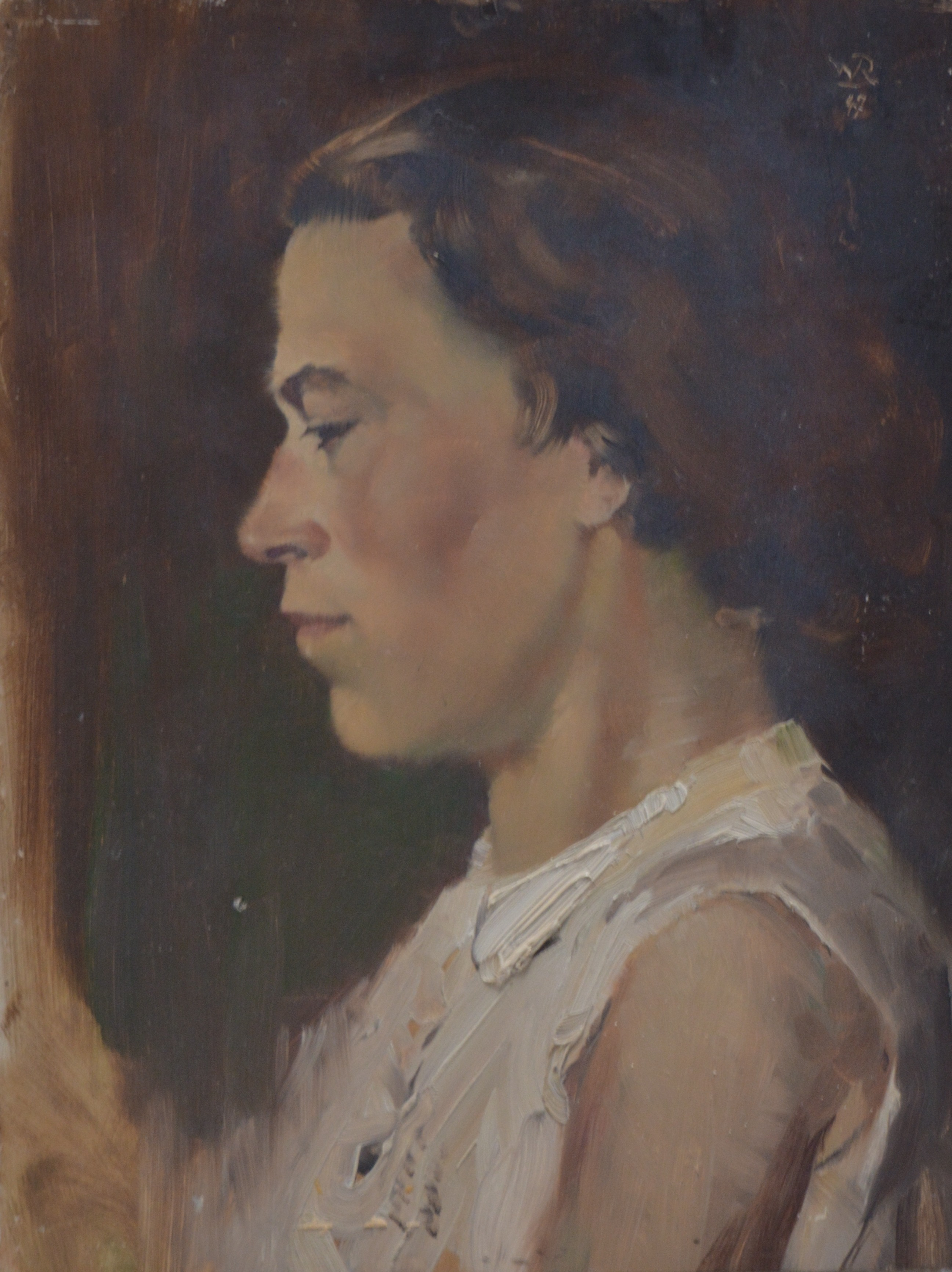 Portrait Lotte Rosenbusch, 1947, oil on wood, 38 x 29 cm